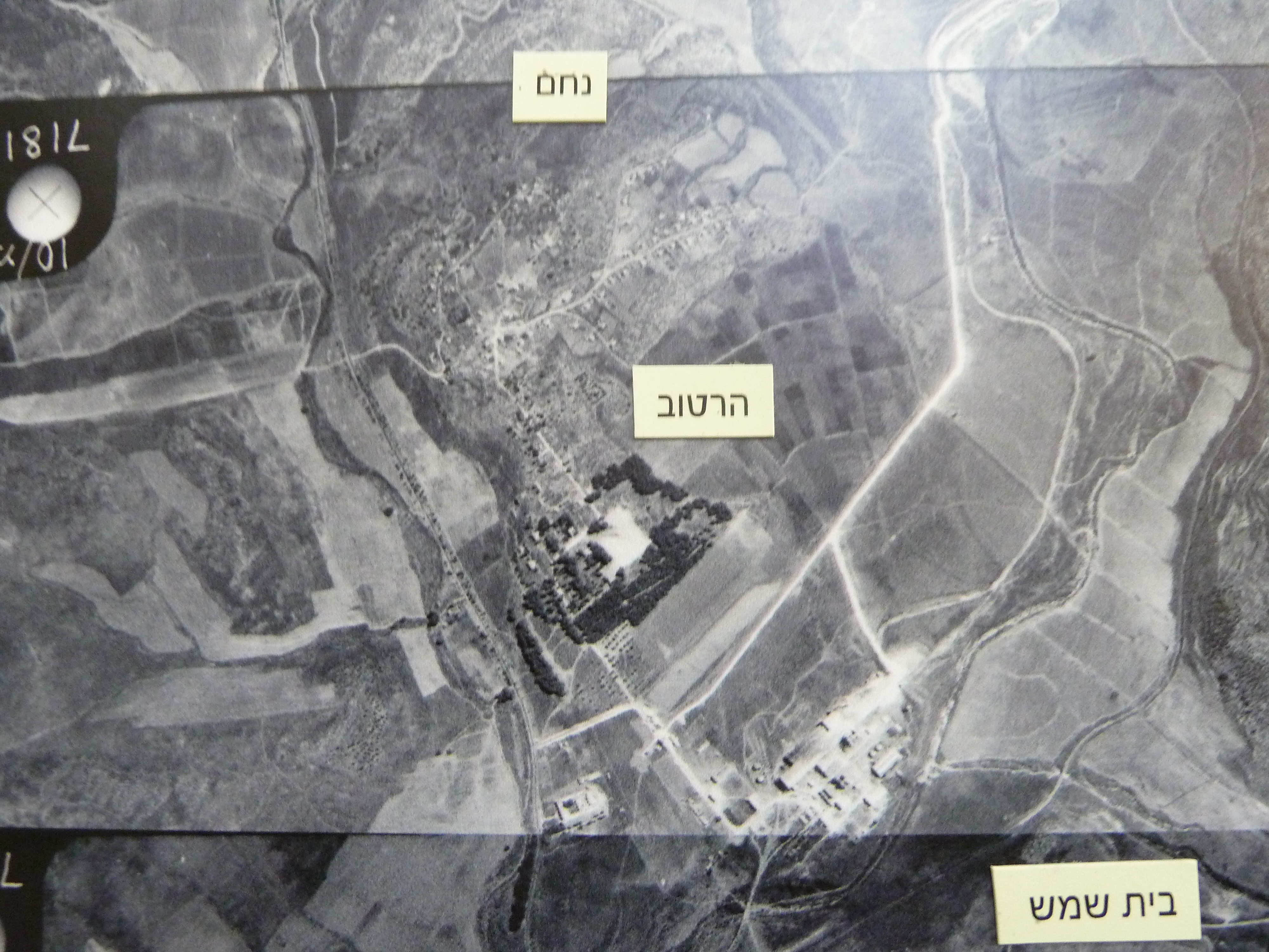 Aerial photographs of the Judean Hills, 1956